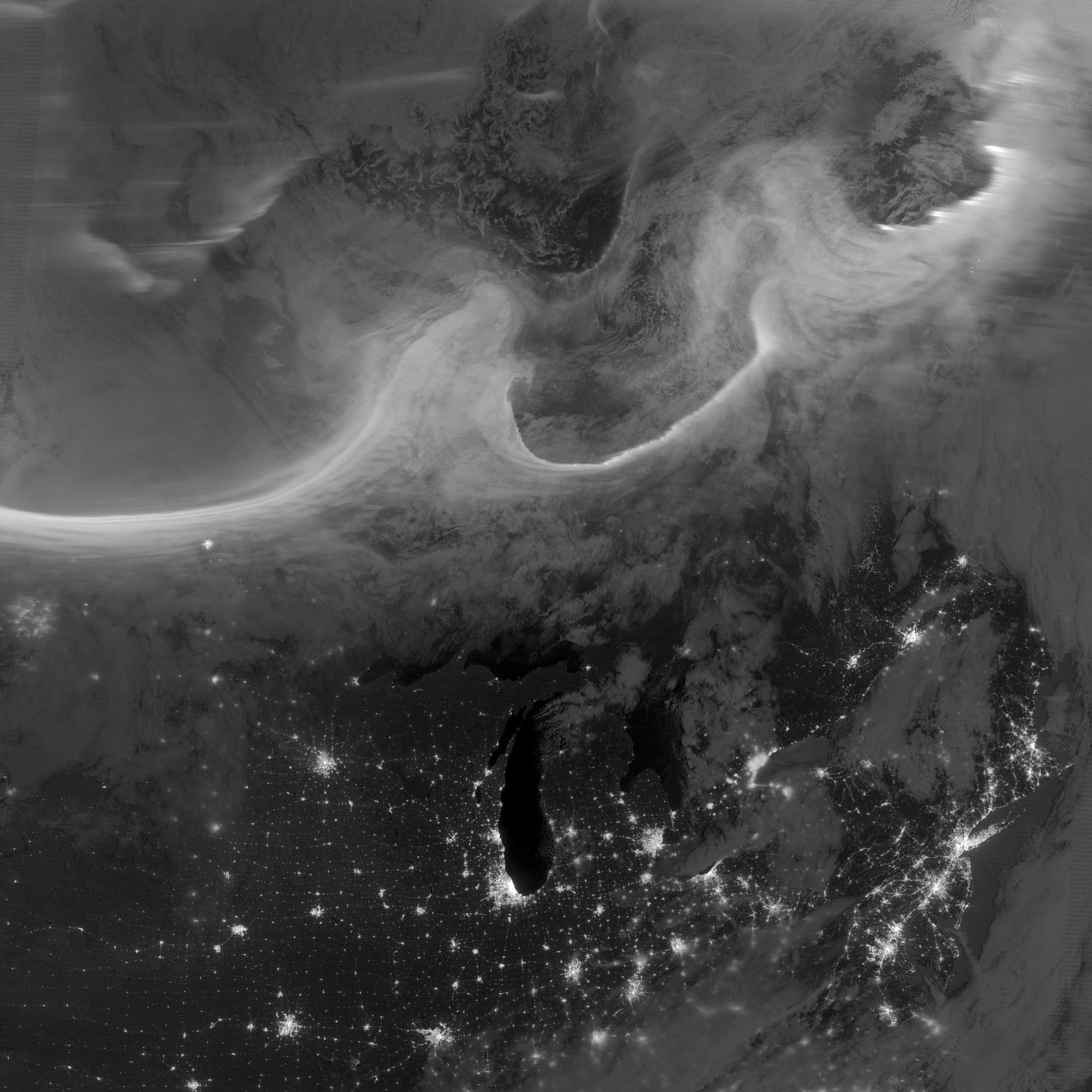 Using the “day-night band” (DNB, 505 to 890 nanometres – primarily visible light from green to near visible infrared) of the Visible Infrared Imaging Radiometer Suite (VIIRS), the Suomi National Polar-orbiting Partnership (Suomi NPP) satellite acquired this view of the aurora borealis early on the morning of October 8, 2012. The northern lights stretch across Canada’s Quebec and Ontario provinces in the image, and are part of the auroral oval that expanded to middle latitudes because of a geomagnetic storm.